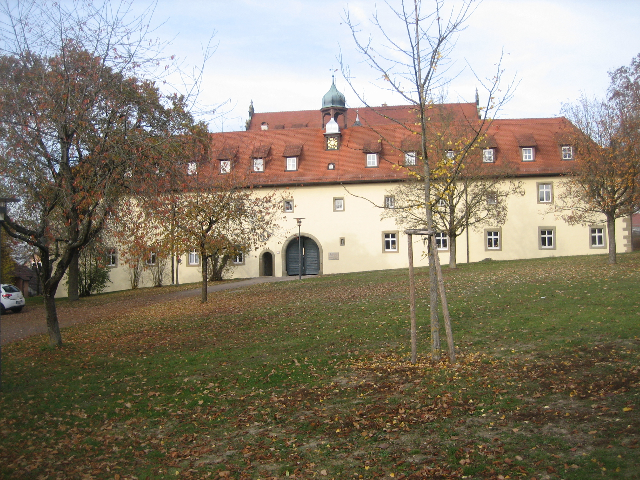 Michelbach an der Bilz Castle